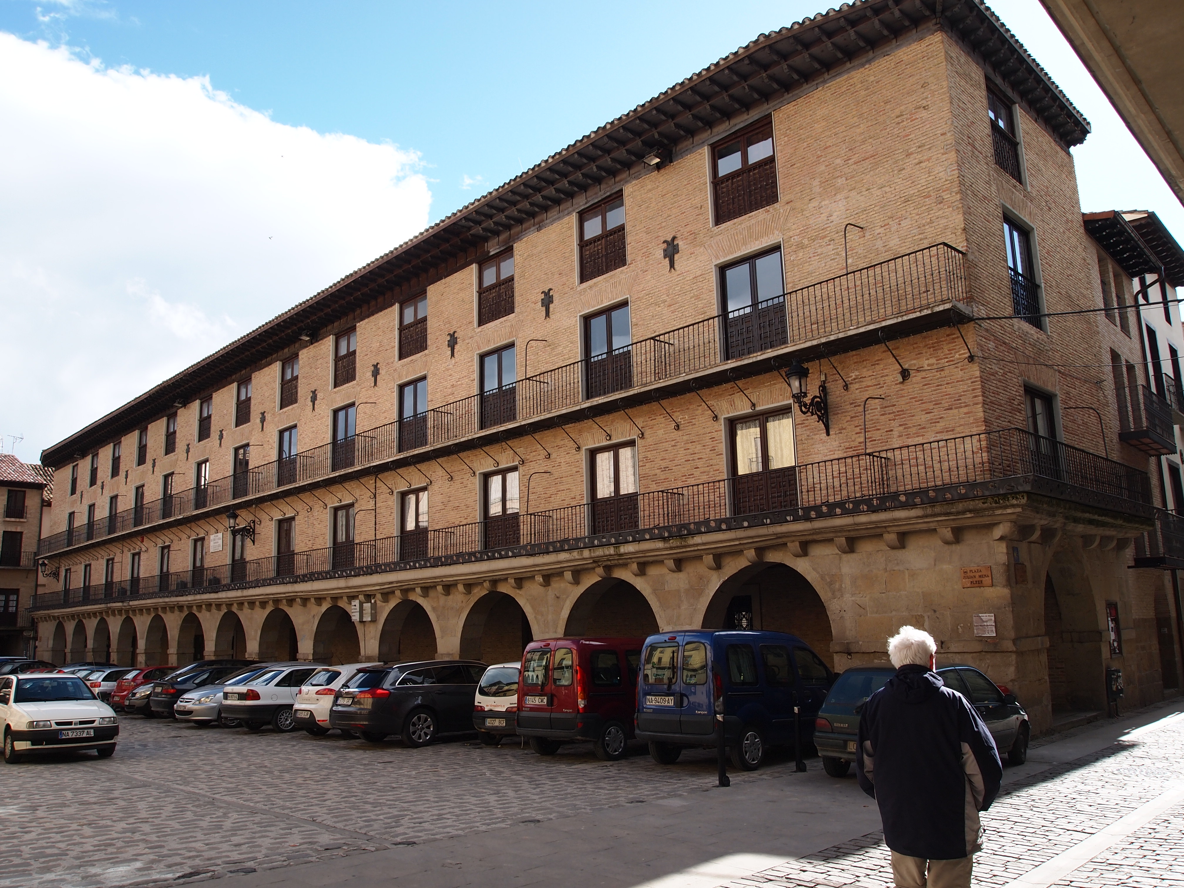 The "Casa de los Cubiertos" in Puente la Reina